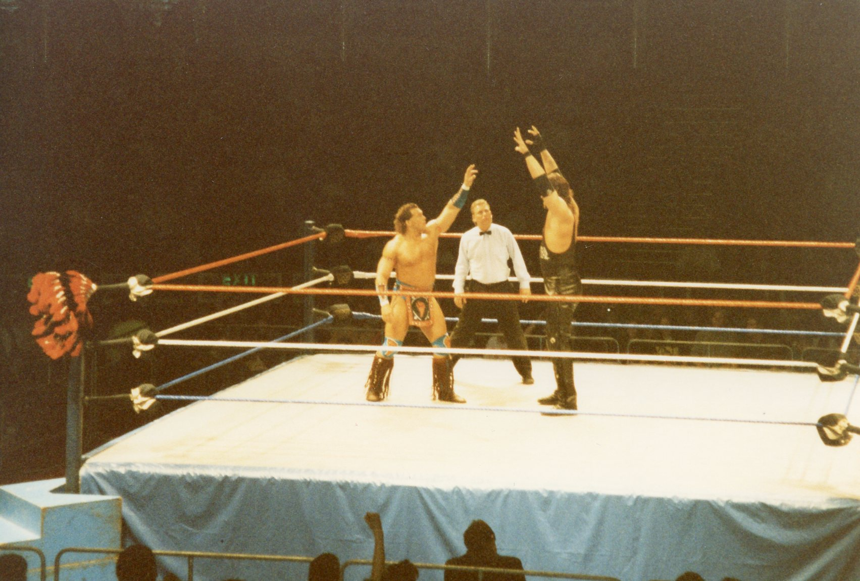 Tatanka in a professional wrestling match with Diesel